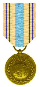 United Nations Emergency Force Medal